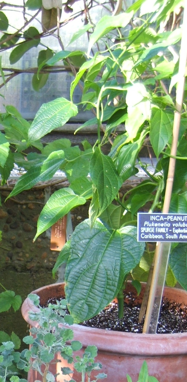 Plukenetia volubilis at the US Botanical Garden